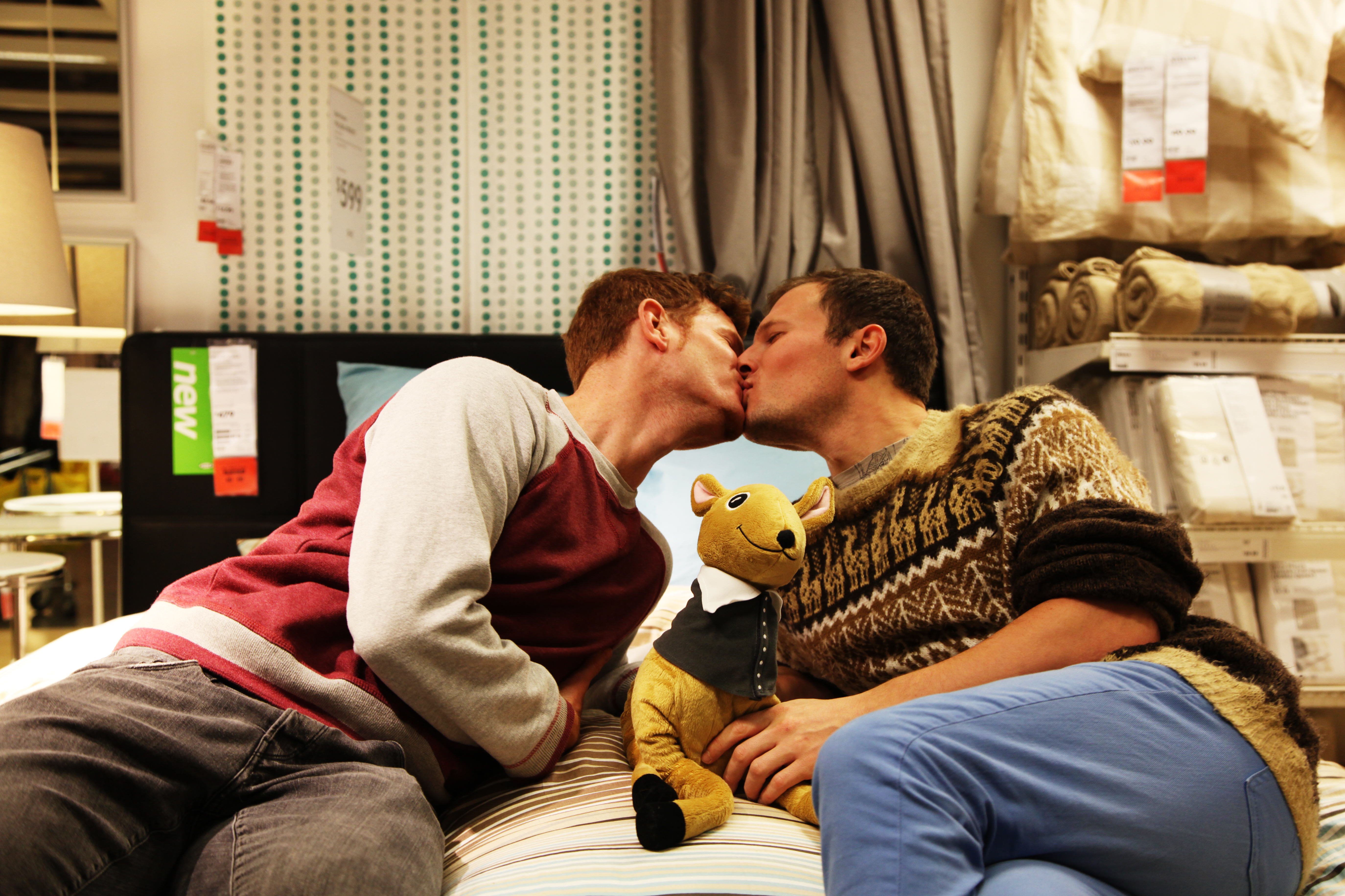 IKEA Gets Queered with Russian Kiss-In After deleting a lesbian couple from the Russian edition of their recent catalog, Russian gays and lesbians, some of them asylum seekers, pose in guerilla photo shoot at a Brooklyn IKEA New York, NY -- This weekend as shoppers mobbed the popular Swedish furniture chain, a group of Russian gay men and women organized a provocative guerilla photo shoot at the Brooklyn IKEA. The art protest was a response to IKEA's recent decision to spike a story about a lesbian couple’s home furnishing needs from their most recent Russian catalog, buckling to legal fears stemming from Russia’s new ill defined law against “propaganda of non-traditional lifestyles. The photo shoot was organized by Joseph Huff-Hannon, co-editor of the forthcoming book Gay Propaganda: Russian Love Stories, Alexander Kargaltsev, a Russian artist/photographer, and gay man who was recently granted asylum in the US, and Nina Long, co-founder of Rusa LGBT, a network of Russian and Russian speaking activists.